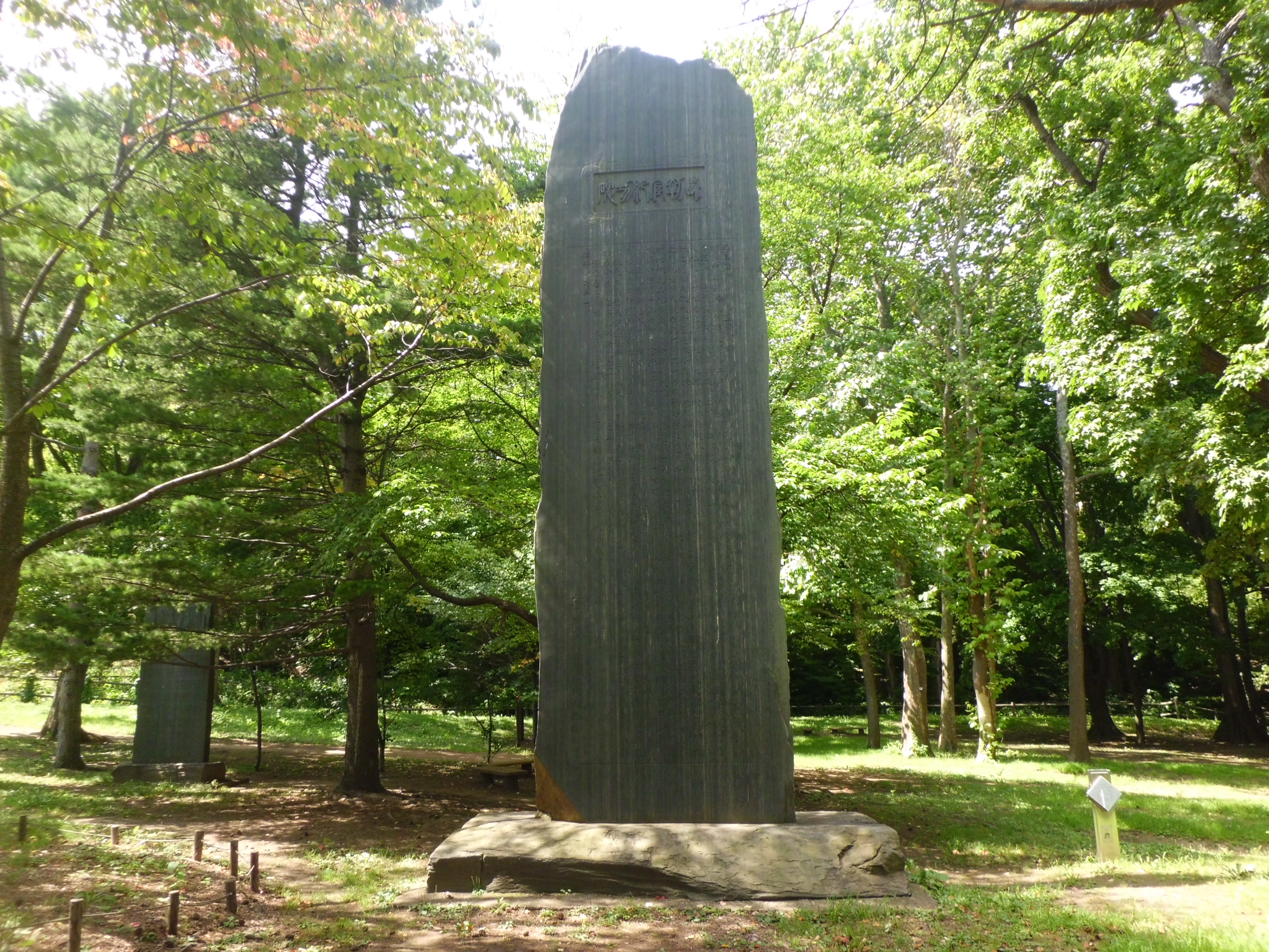 Monument of Shima-Hangan